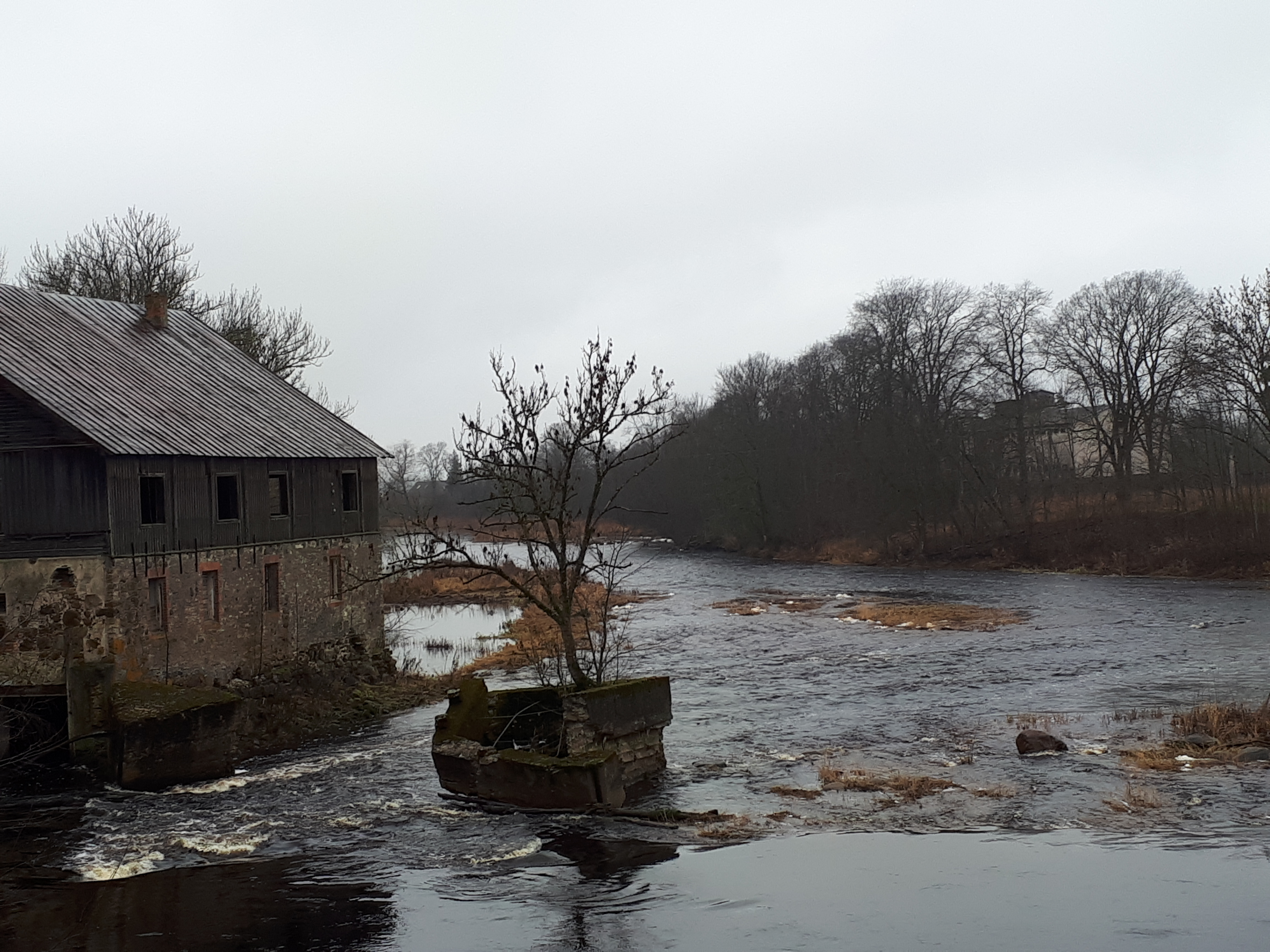 Watermill in Suurejõe (Estonia)